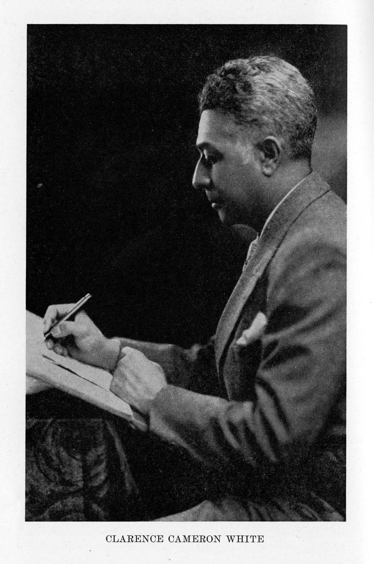 Photograph of Clarence Cameron White